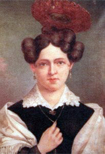 The locals often recalls related to the will of Mrs. Matilde Salamanca, always making comments and statements on this document. It has been reported that left a great legacy for public services, bequeathed his estates to the poor and orphans Valley, ordering compliance with their will to probate Don Bernardo O'Higgins Supreme Director, but nothing is certain in this.